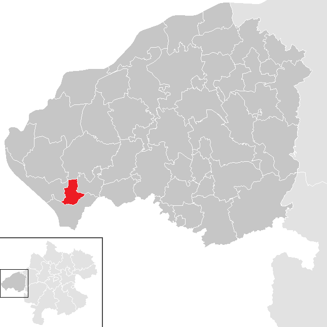 district Braunau am Inn